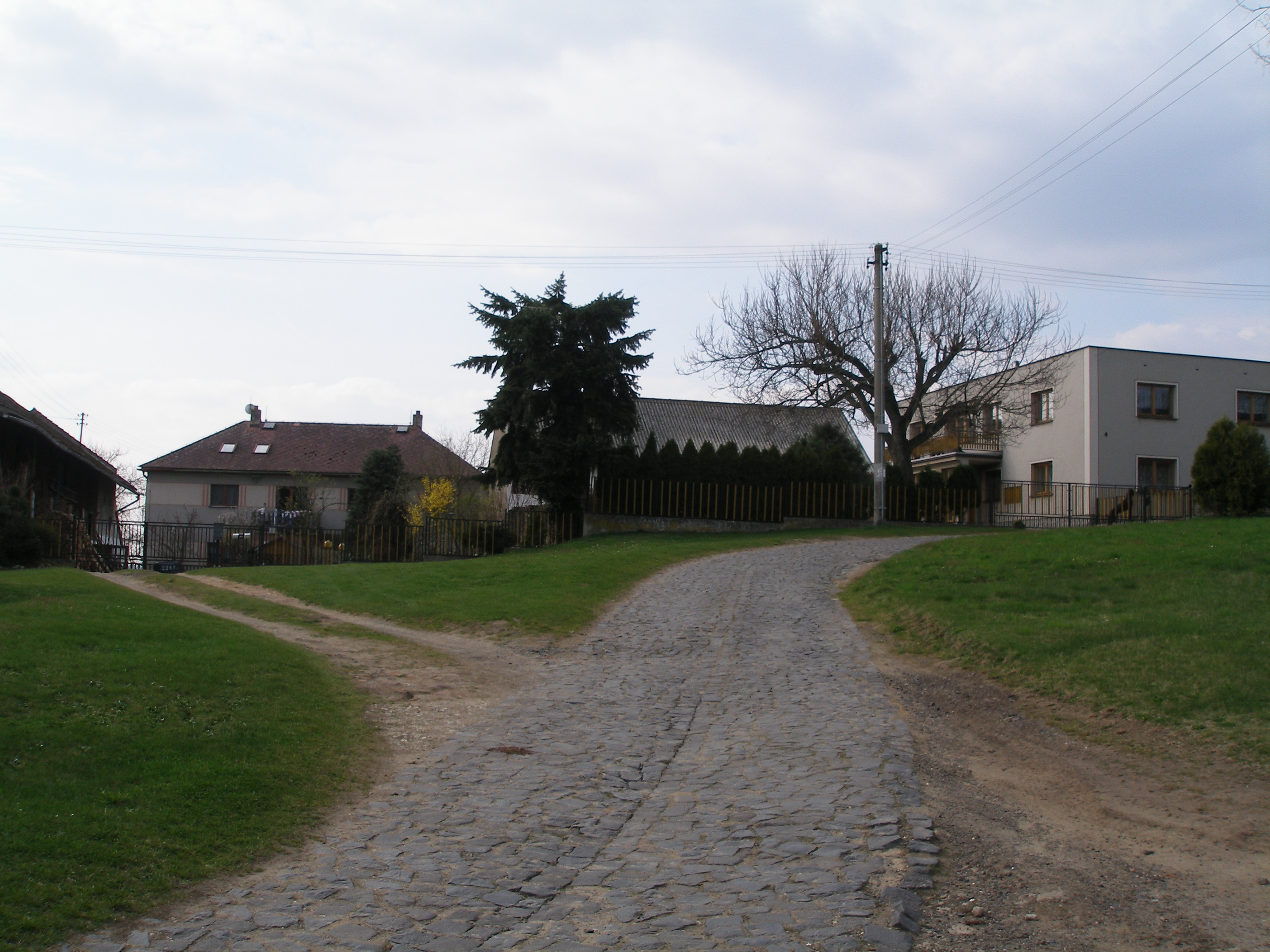 Village square in Soleček.